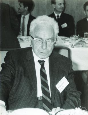 Richard Courant at center. Future Courant Institute director Peter Lax appears to be in the upper left corner of the photo.